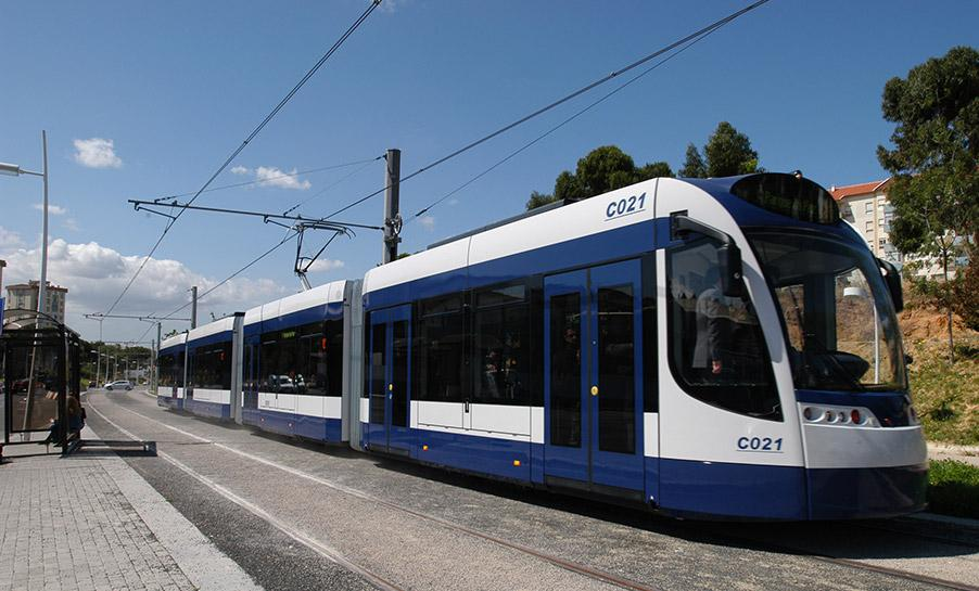 Siemens Combino Plus tram (#C021) in Almada, Portugal. Built 2007, Metro Transportes do Sul (MTS) operator.